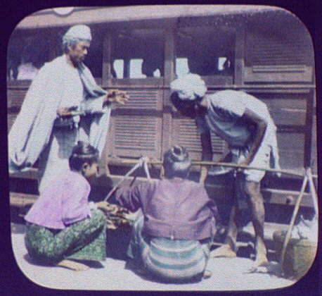 Title: Peddlers at railway station Physical description: 1 slide : lantern, hand colored ; 3.25 x 4 in. Notes: Forms part of: Jackson, William Henry, 1843-1942. World's Transportation Commission photograph collection (Library of Congress).; Gift; William P. Meeker; 1971.